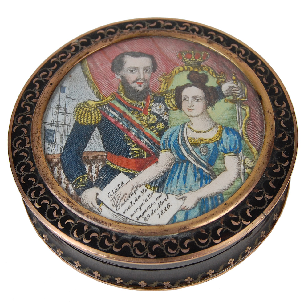 Imperor Pedo I of Brazil and Maria II of Portugal 1820s